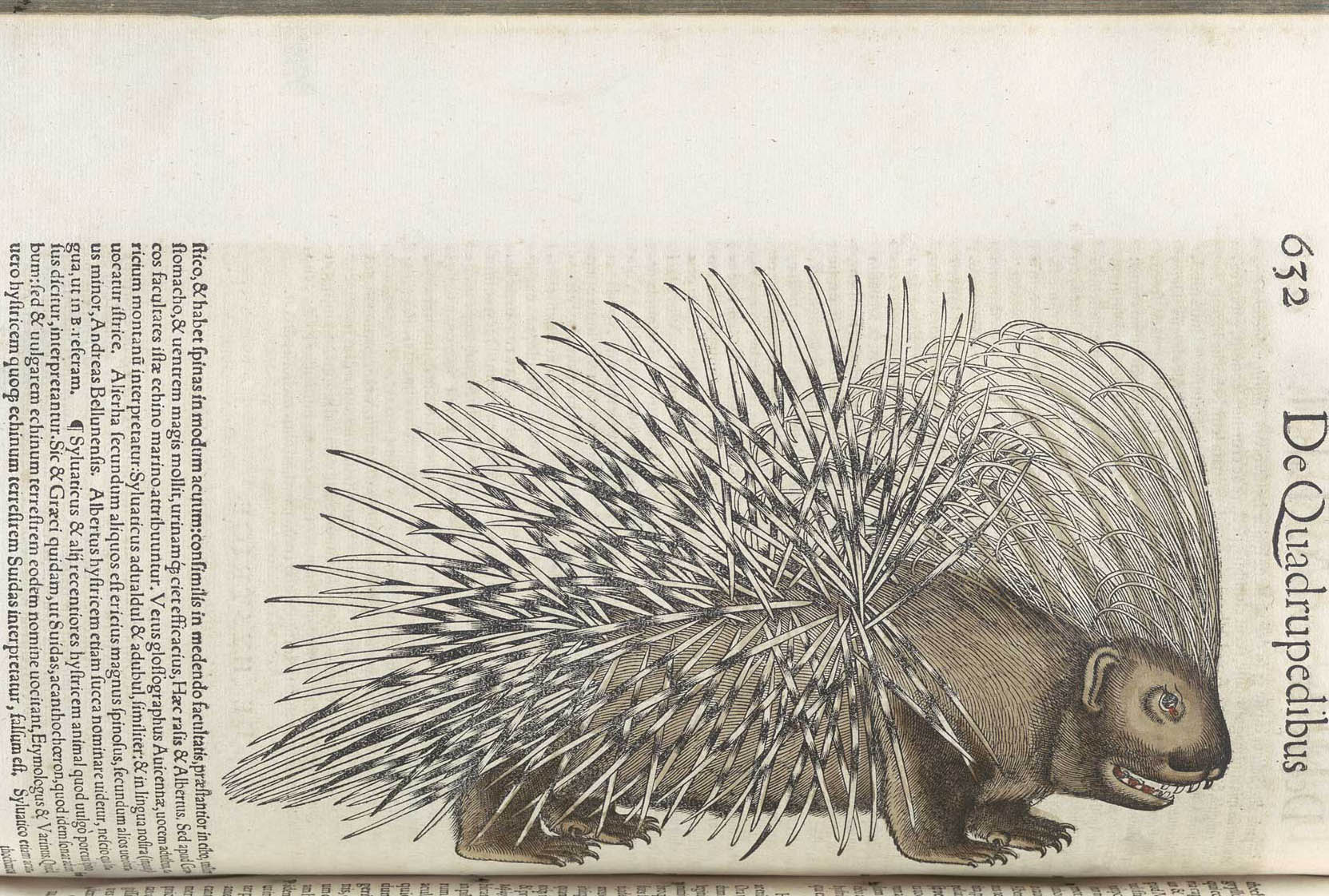 Conrad Gesner. Historiae Animalium. (Zurich, 1551ff).